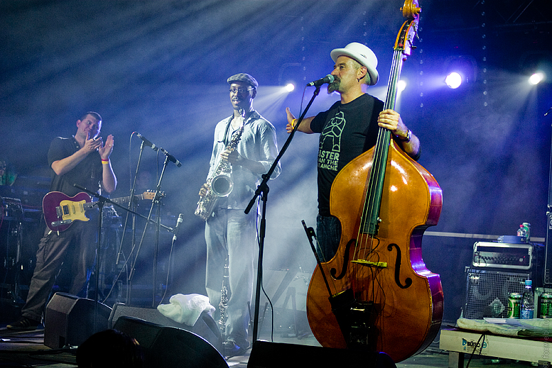 Red Snapper live at Milk Club, Moscow, Russia. 5th October 2009.